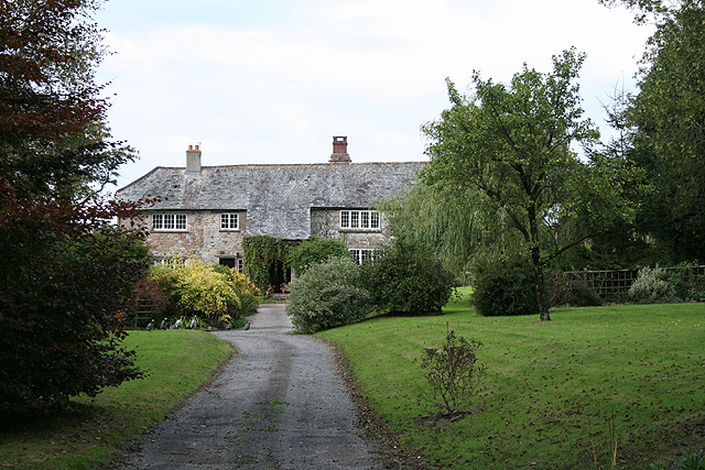 Knowstone: Shapcott Barton. Seen from the public footpath to East Knowstone. Looking north